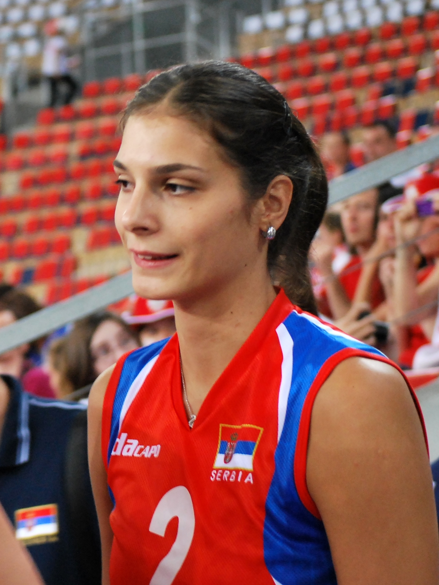 Jovana Brakočević, volleyball player from Serbia